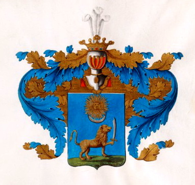 Coat of Arms of Sherbachev family